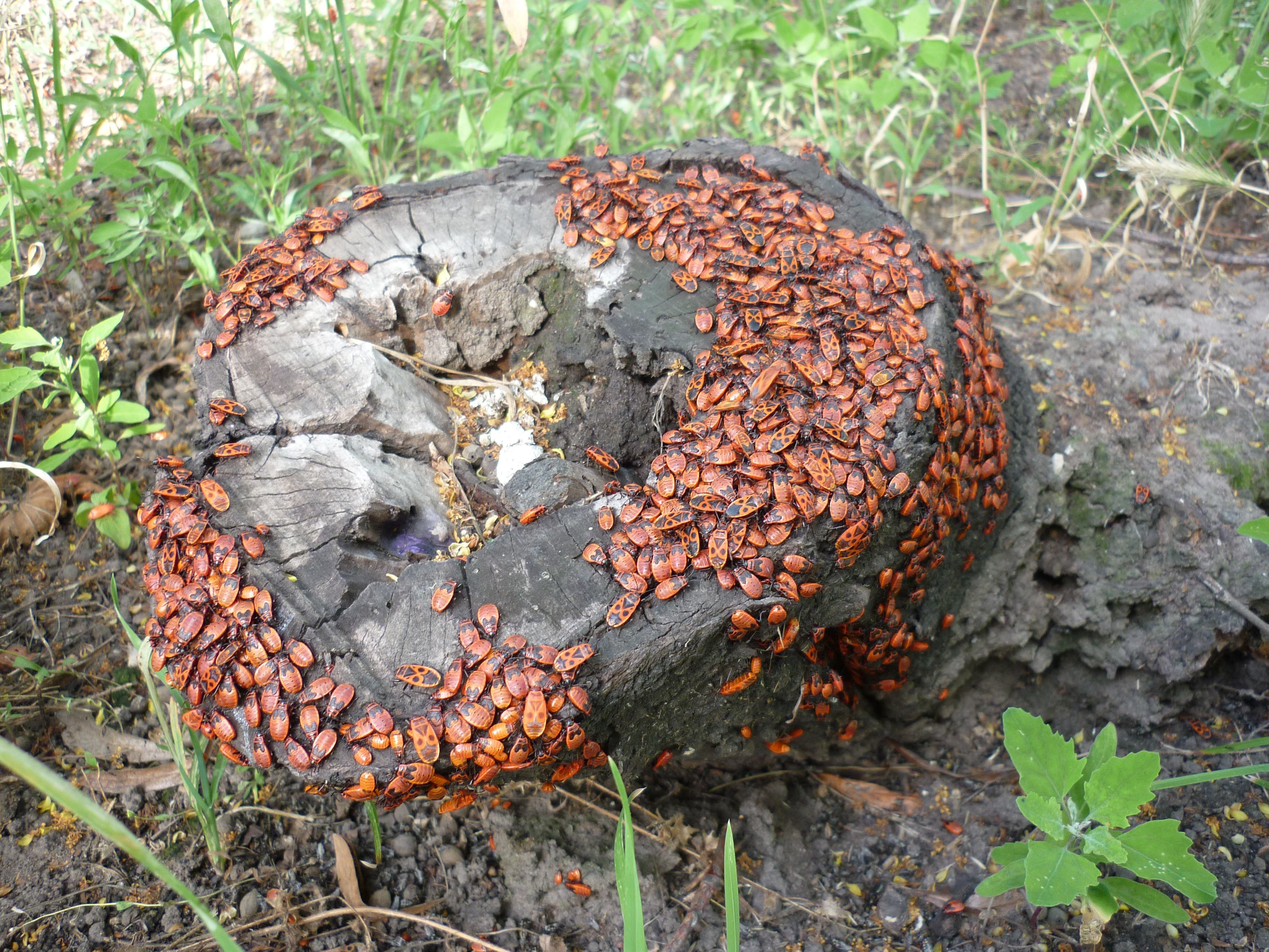 A colony of firebugs (Pyrrhocoris apterus) on a tree stump.